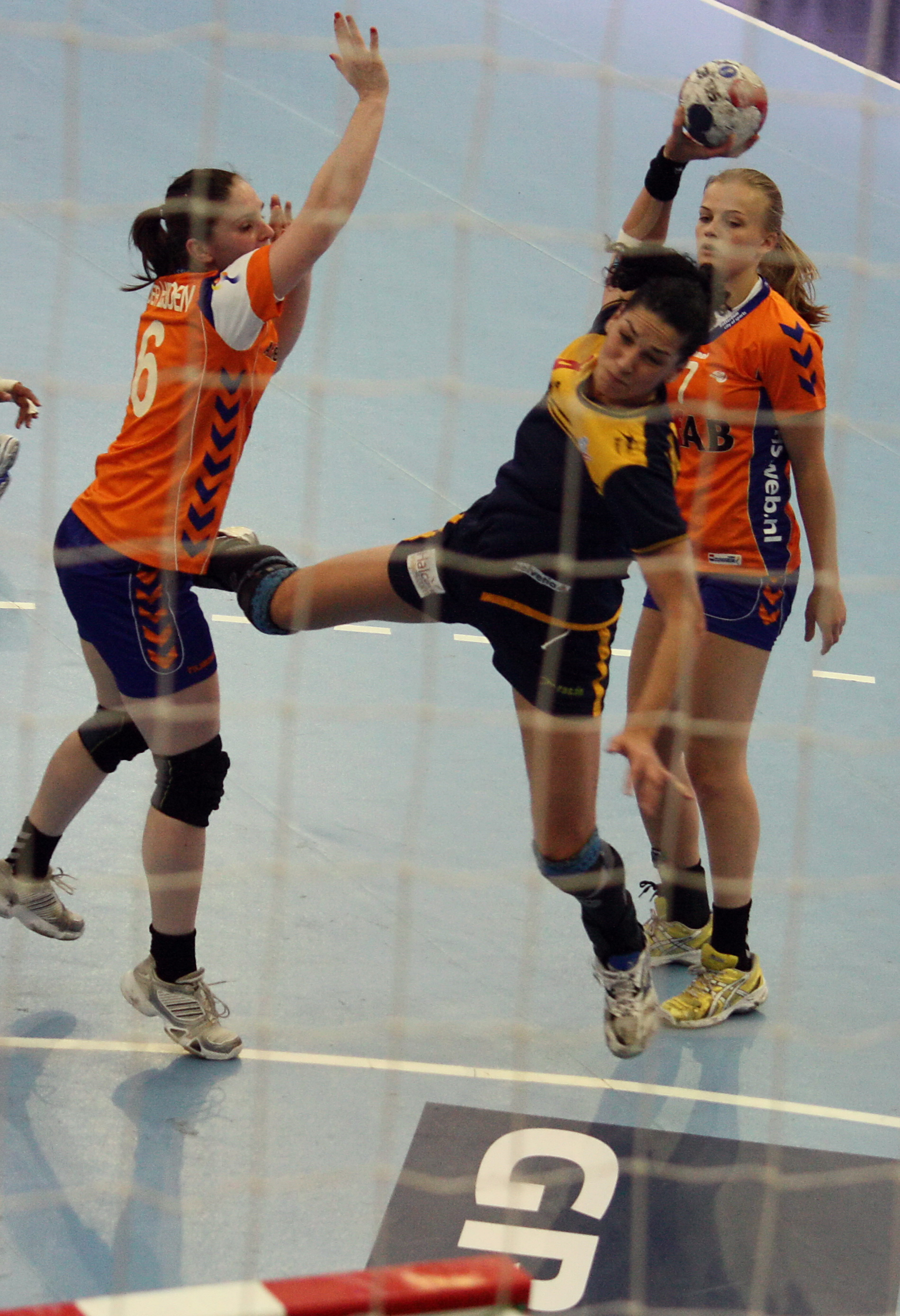 Verónica Cuadrado en el torneo celebrado en España, del 25 al 27 de mayo de 2012, clasificatorio para los Juegos Olímpicos de Londres 2012.